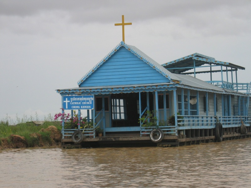 Catholic Church Chong Khnies, Cambodia